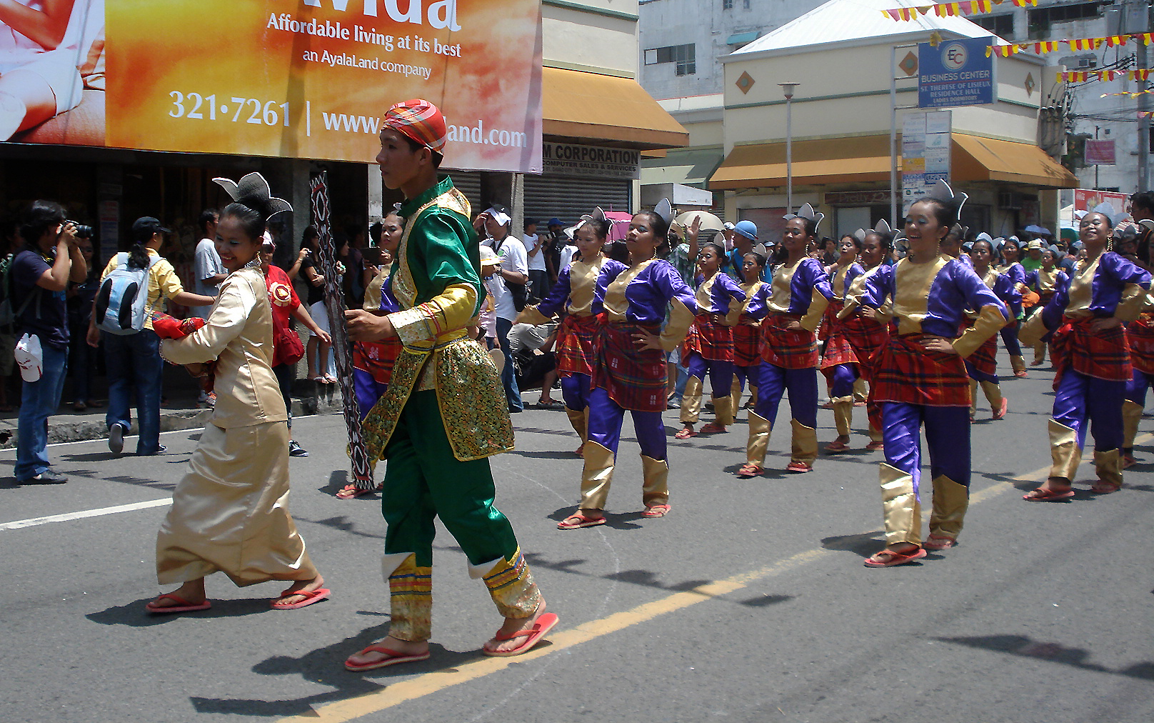 Street dancing competition, part of Kadayawan Festival celebration.